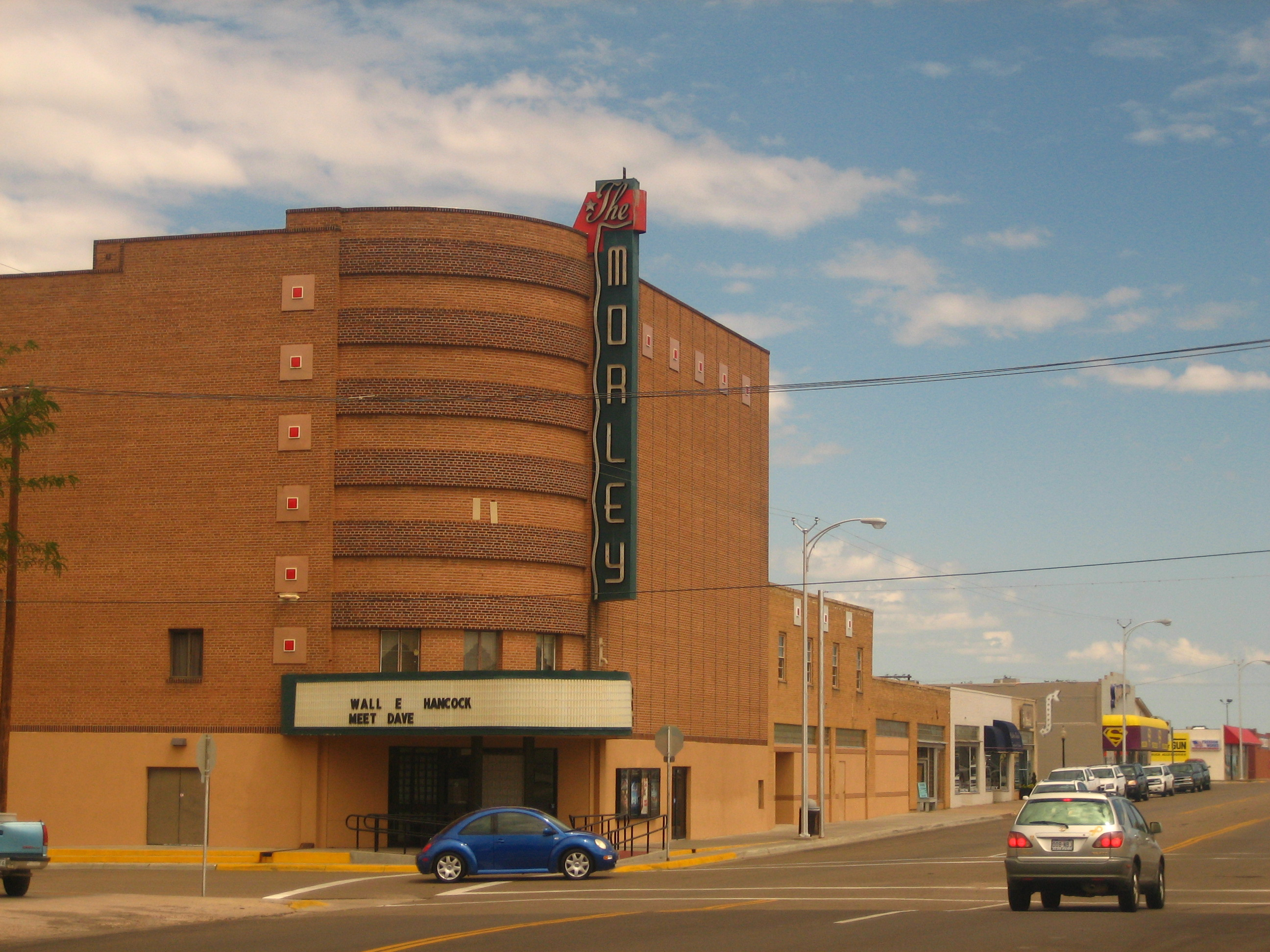 Morley Theatre in Borger, Texas, United States. I took photo on July 15, 2008.Billy Hathorn (talk) 21:15, 22 July 2008 (UTC)